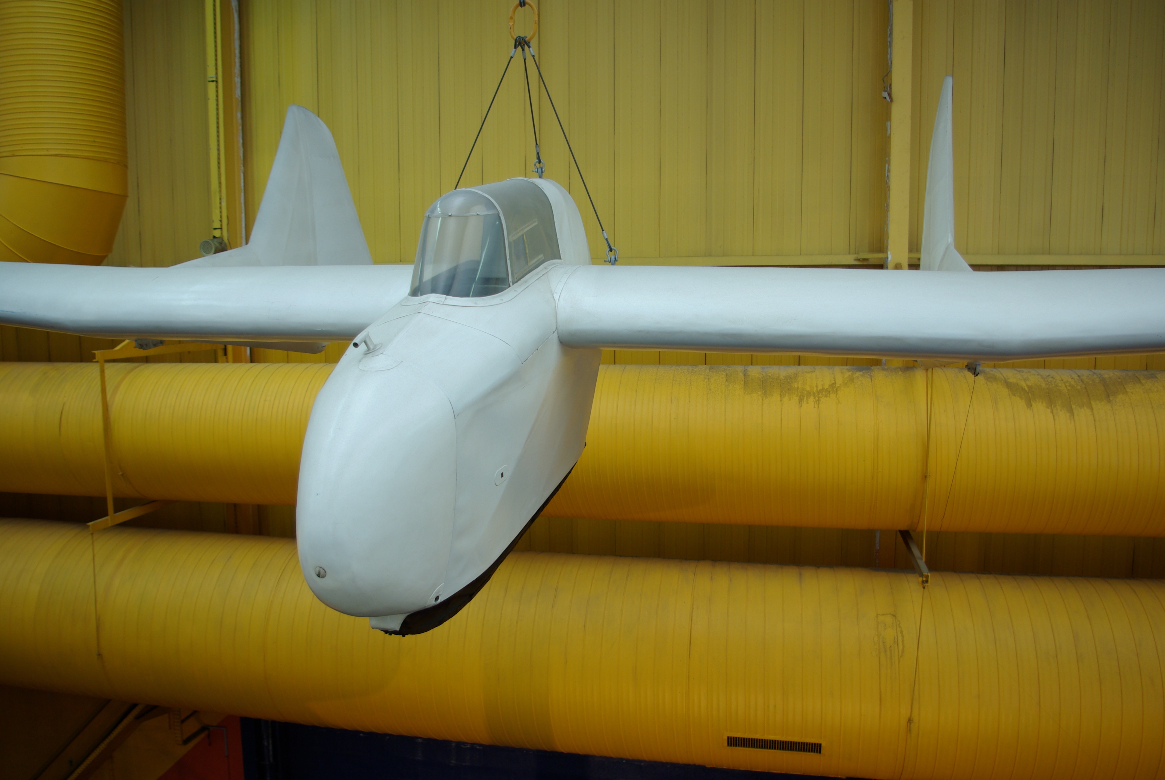 A glider Fauvel AV 36 exhibited at the Air & Space Museum at Le Bourget, France.